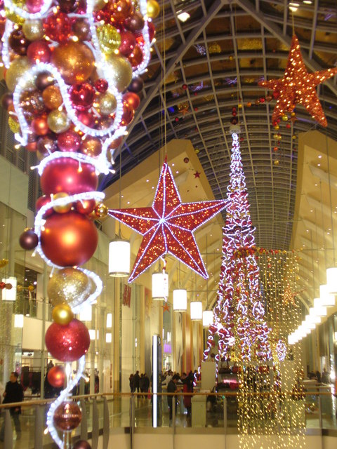 St Davids 2 before Christmas Lights and baubles brighten up the brand new multi-level shopping centre in central Cardiff.